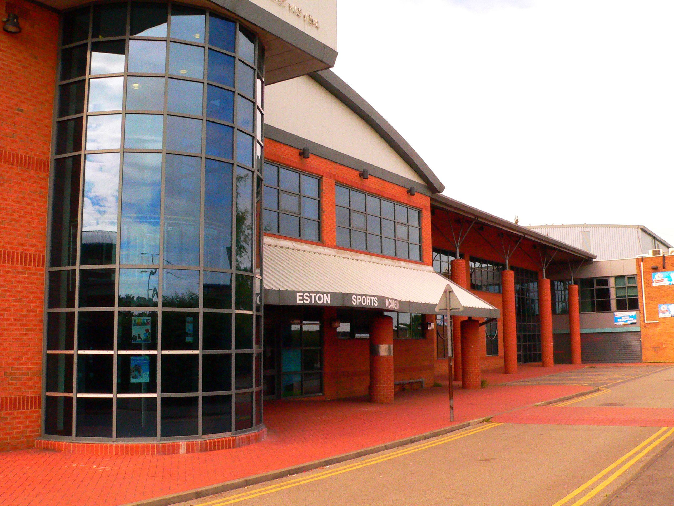 Eston Sports Academy houses swimming pools and a gym.